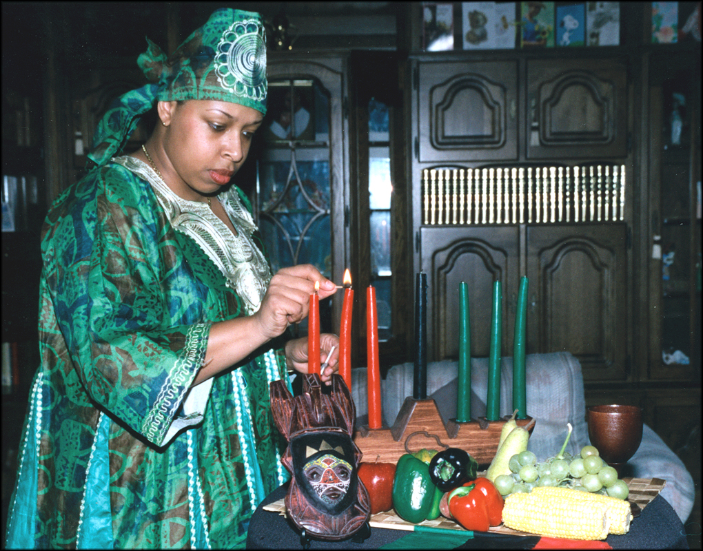 Tech. Sgt. Jennifer Myers (above), 66th Air Base Wing noncommissioned officer in charge of the Military Equal Opportunity office, demonstrates a Kwanzaa ritual where she lights a candle in the Kinara.